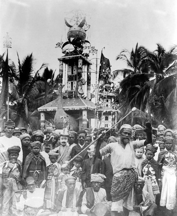 The Tabut festival